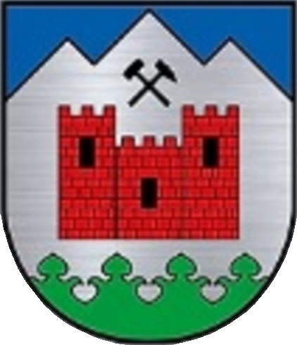 Coats of arms of the former municipality of Thörl, Styria (valid until 2014)